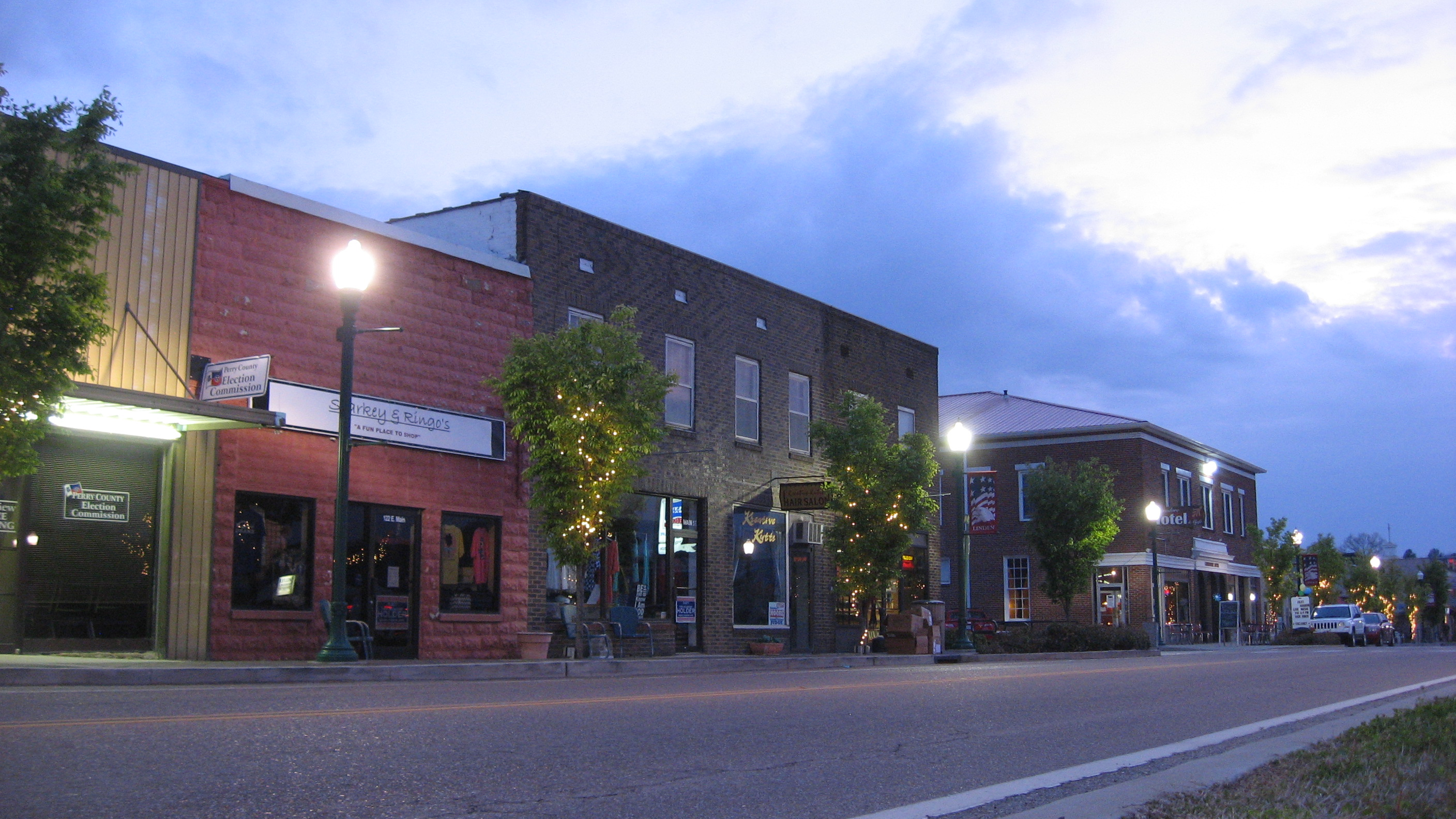 Buildings along U.S. Route 412 on the southern side of the courthouse square in Linden, Tennessee, United States.